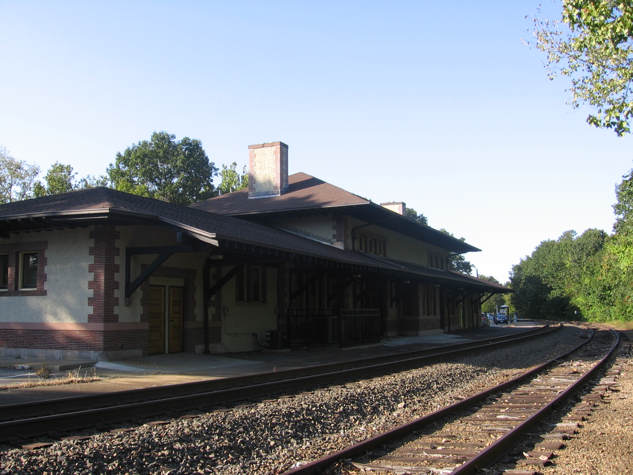 Trackside view of the original Naugatuck station in Naugatuck, Connecticut. Metro North trains stop at a shelter located north of this older station house. The station house houses the Naugatuck Historical Society.